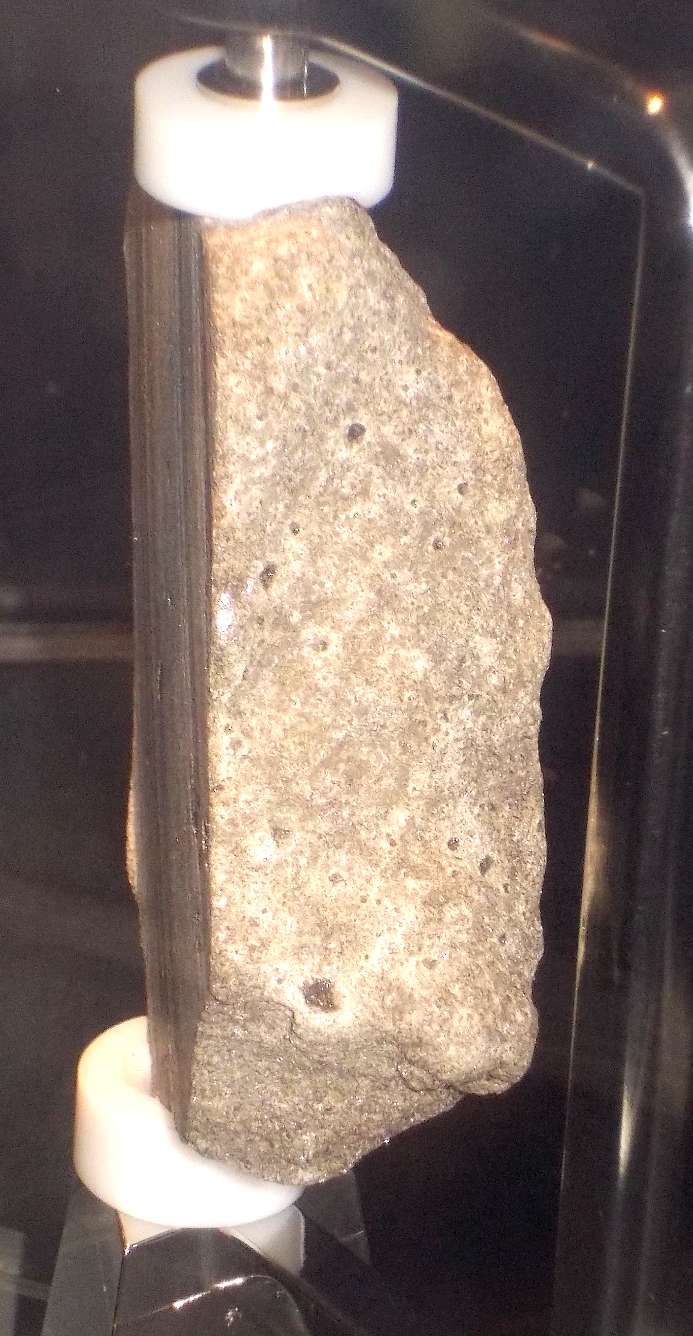 Rock sample collected at Apollo 12 mission, natural face